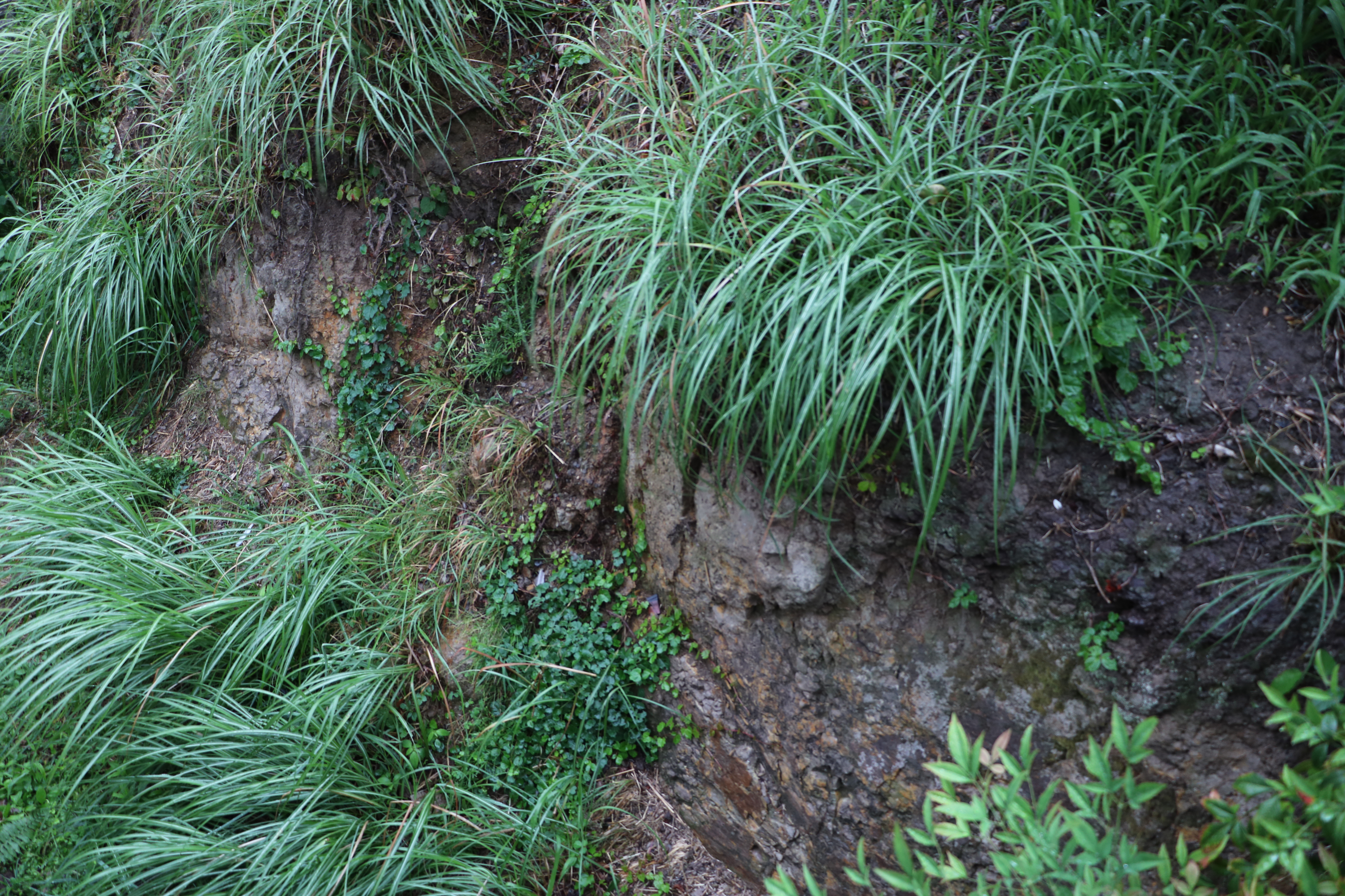 Higashiyama Pleistcene Strata containing plant fossils, natural monument of Japan.